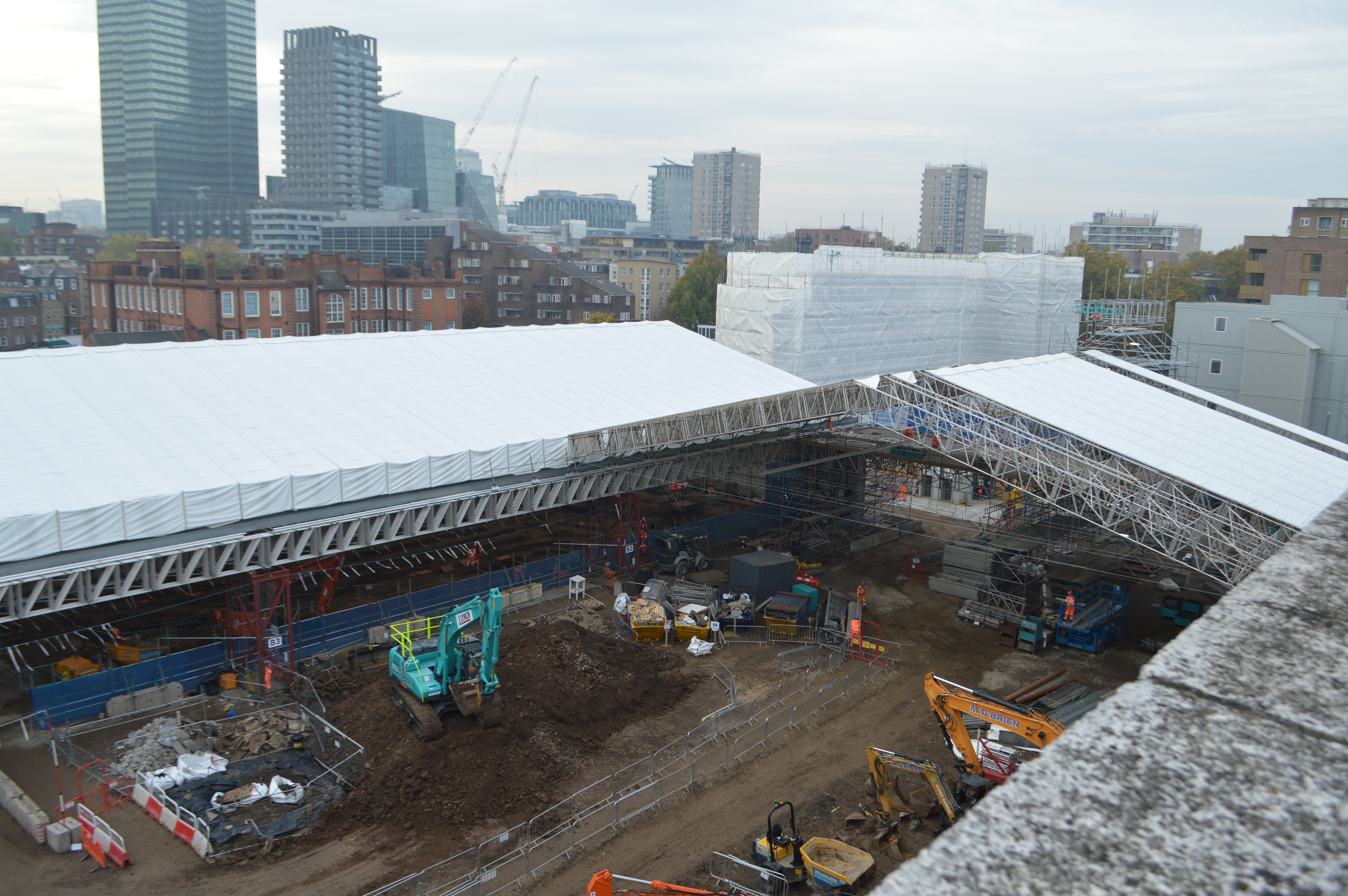 Excavation at a former burial ground in London